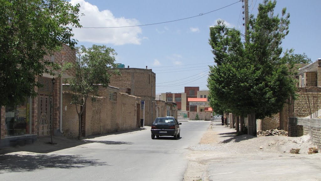 Chaleshtar Old Chahar Mahal Center